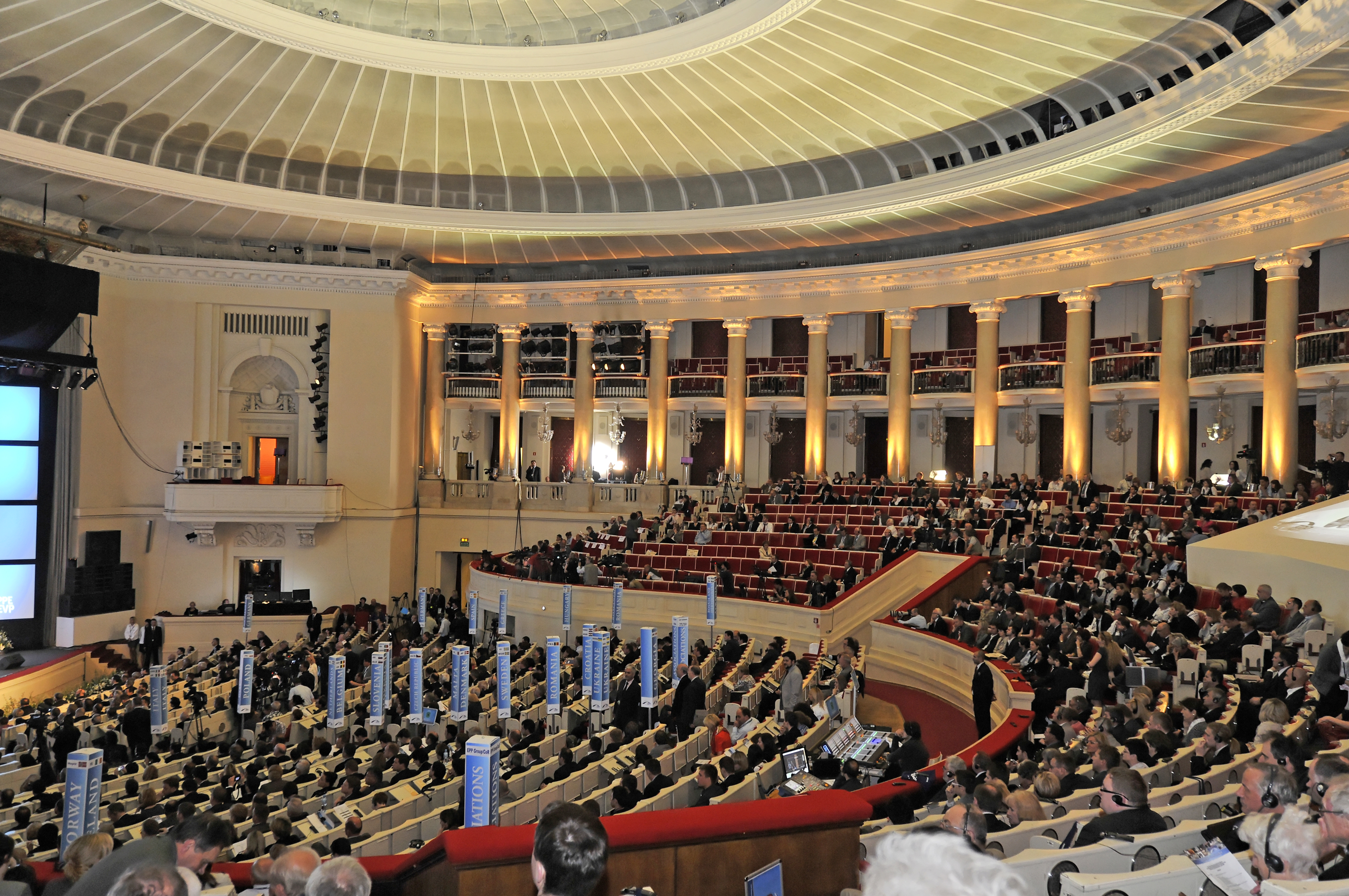 EPP Congress in Warsaw